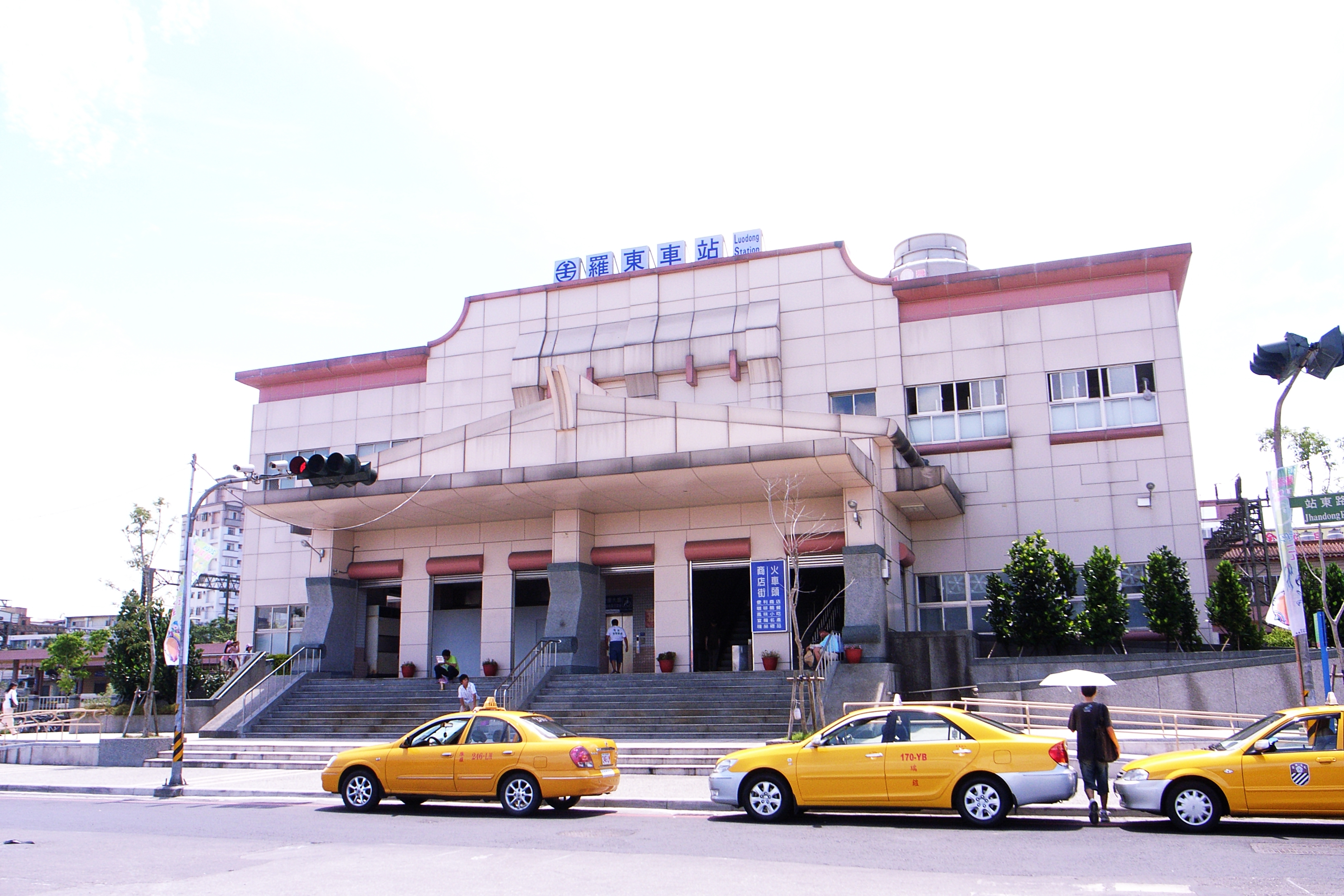 Rear station of Luodong Station, Taiwan Railway Administration.